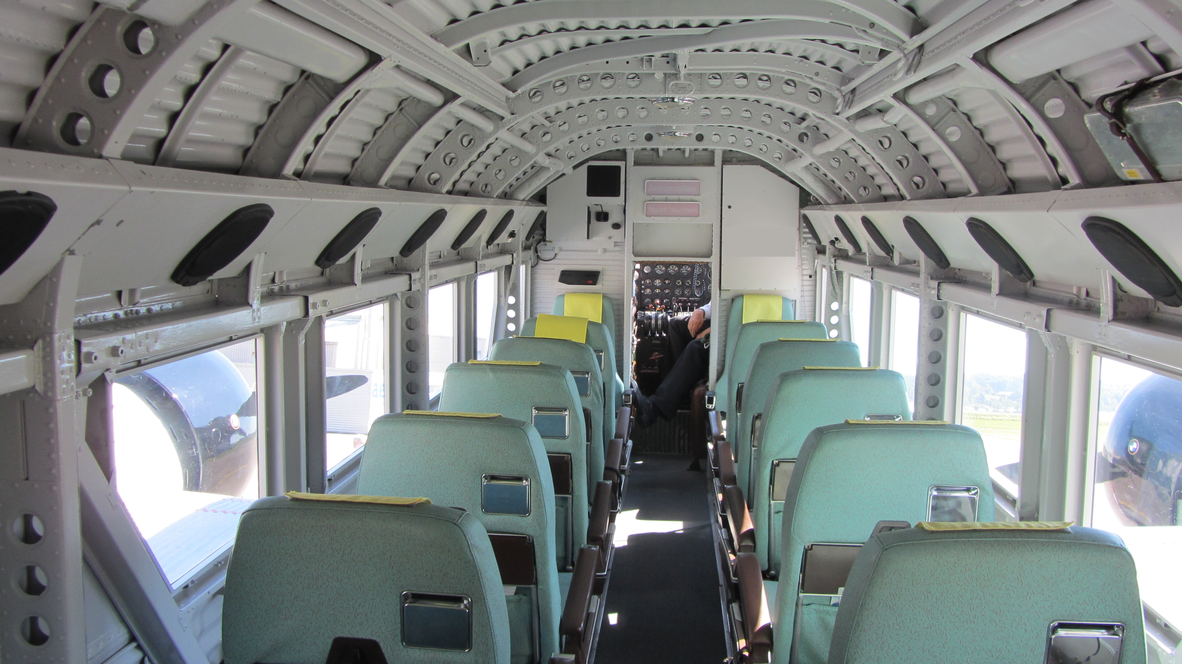 Ju-52 Cabin Ju-Air HB-HOP 2017